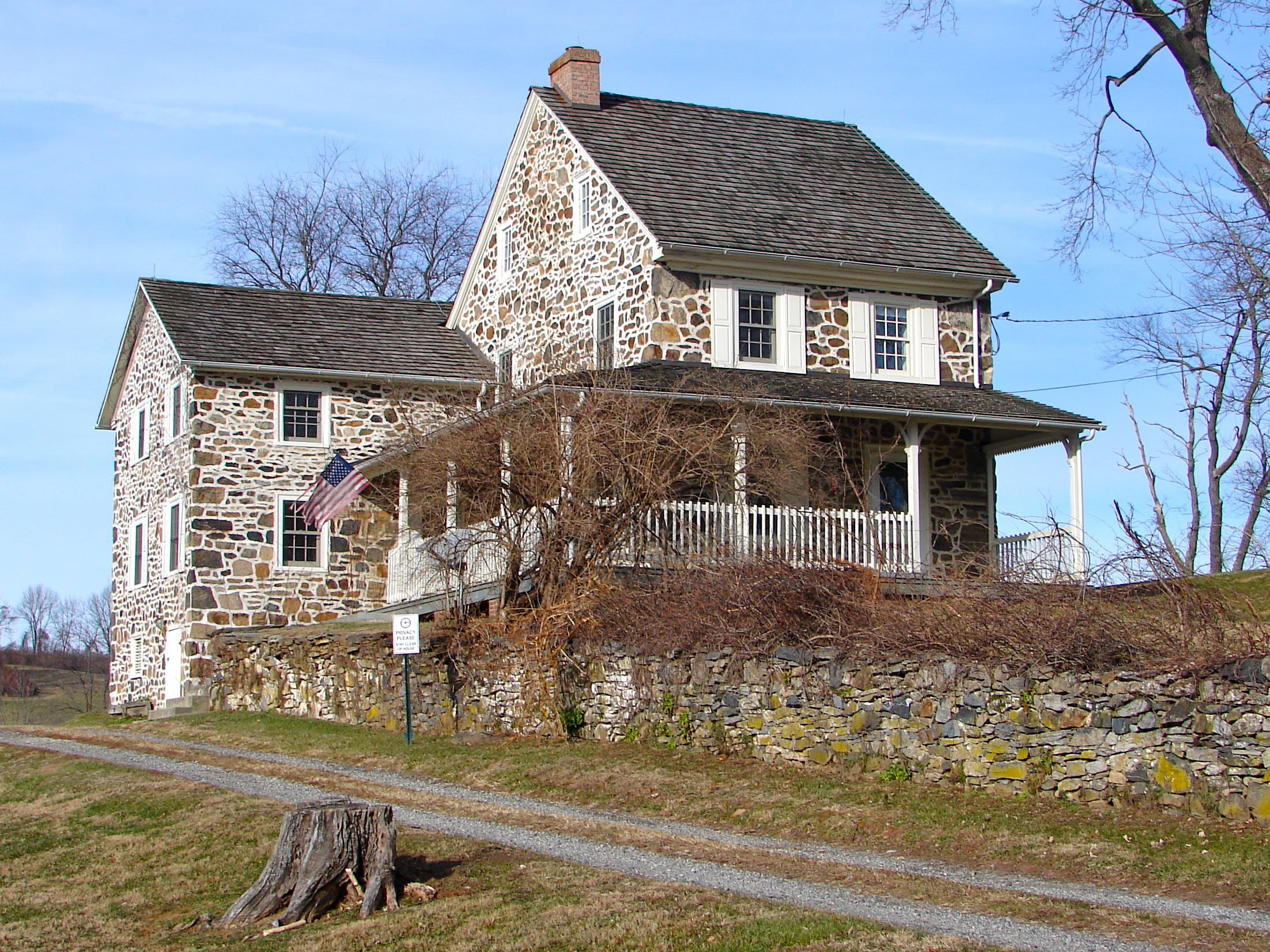 House in Okehocking Historic District on the NRHP since August 2, 1993. The HD is roughly bounded by West Chester Pike (S), Plumsock Road (E), Goshen Road (N), and Garrett Mill Road (W), about 6 miles east of West Chester, PA and a few miles NW of Ridley Creek Park, in Chester County, PA near the border with Delaware County. In 1703 500 acres was deeded by William Penn to the Okehocking band of Lennape (Delaware) Indians. They left before 1740 and land was settled by Quakers at that time. Very agricultural area with conservation easements and a township park, Quaker meeting house, Gentlemen Farmers' houses. This house is just off West Chester Pike (PA 3) near center from east to west. Willistown Township